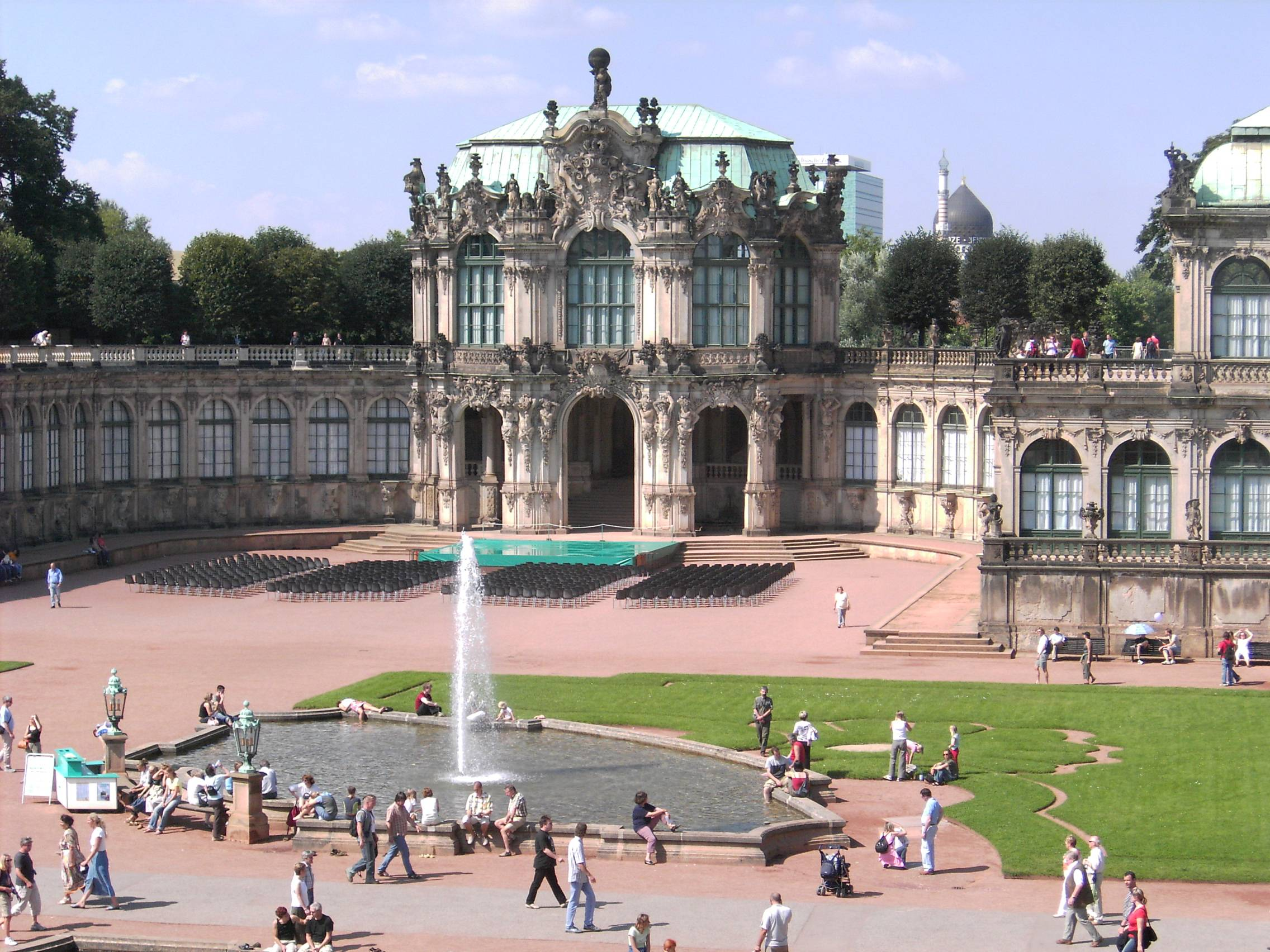 Dresdner Zwinger